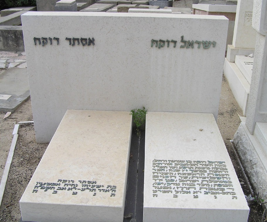 Tomb fo Israel Rokah (mayor of Tel Aviv) in Trumpeldor cemetery in Tel Aviv photographed by Eman, Fecruary 2006